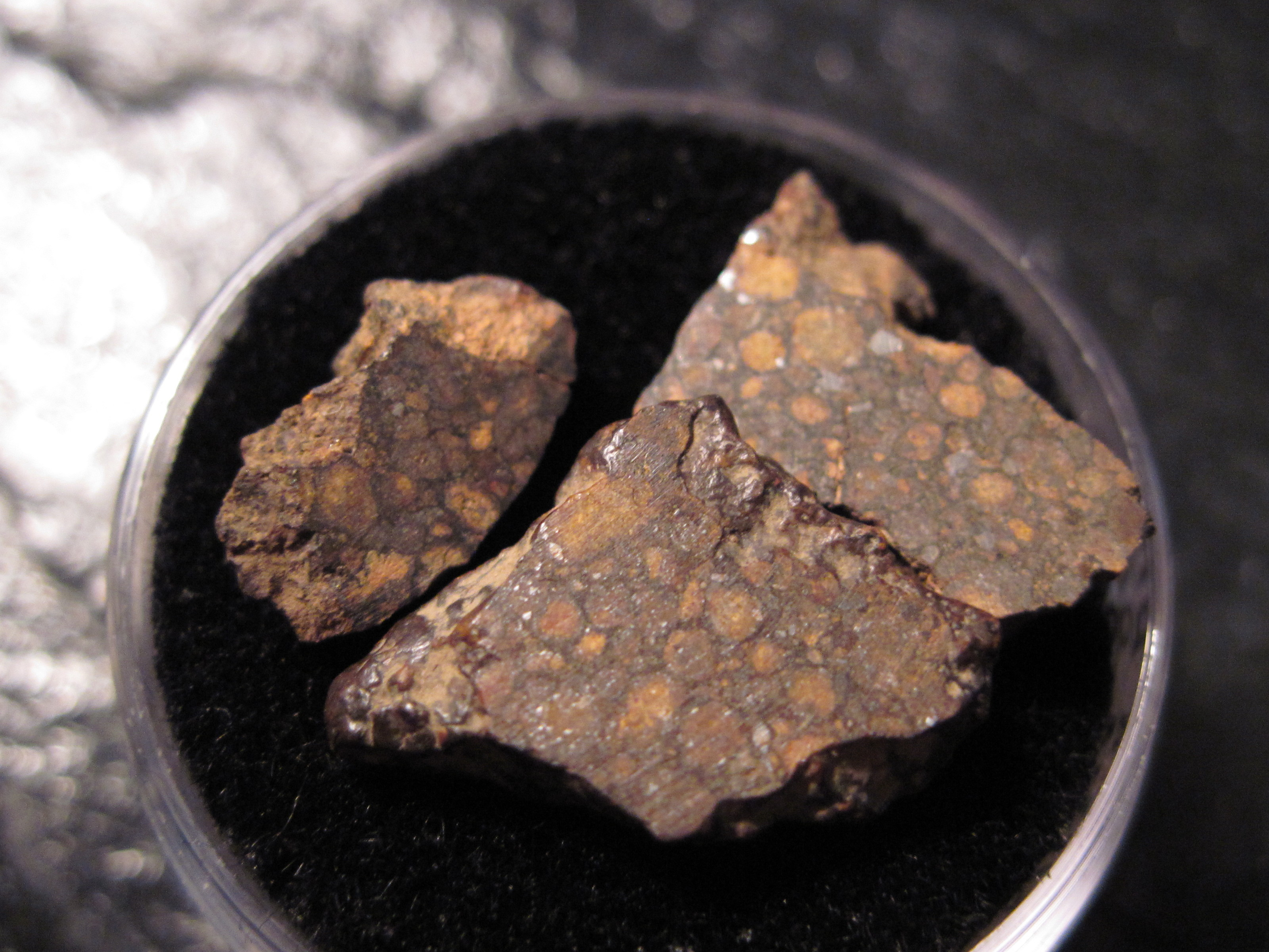 NWA 801, 2.51 grams of the rare CR2 Renazzo Carbonaceous Chondrite. Jon Taylor collection.